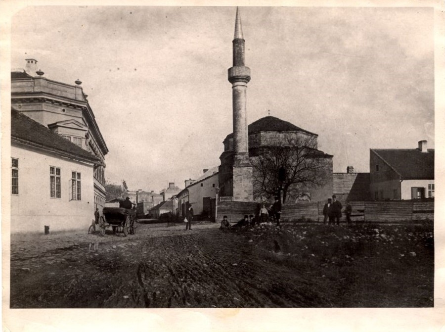 Belgrade, 1876 - V.I.Groman, The Defterdar Mosque. Catalog number: Zf, A-B-4